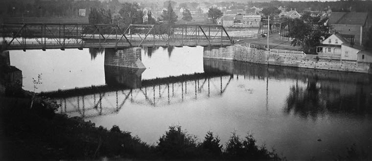 Cumming's Bridge, Ottawa, Ontario.